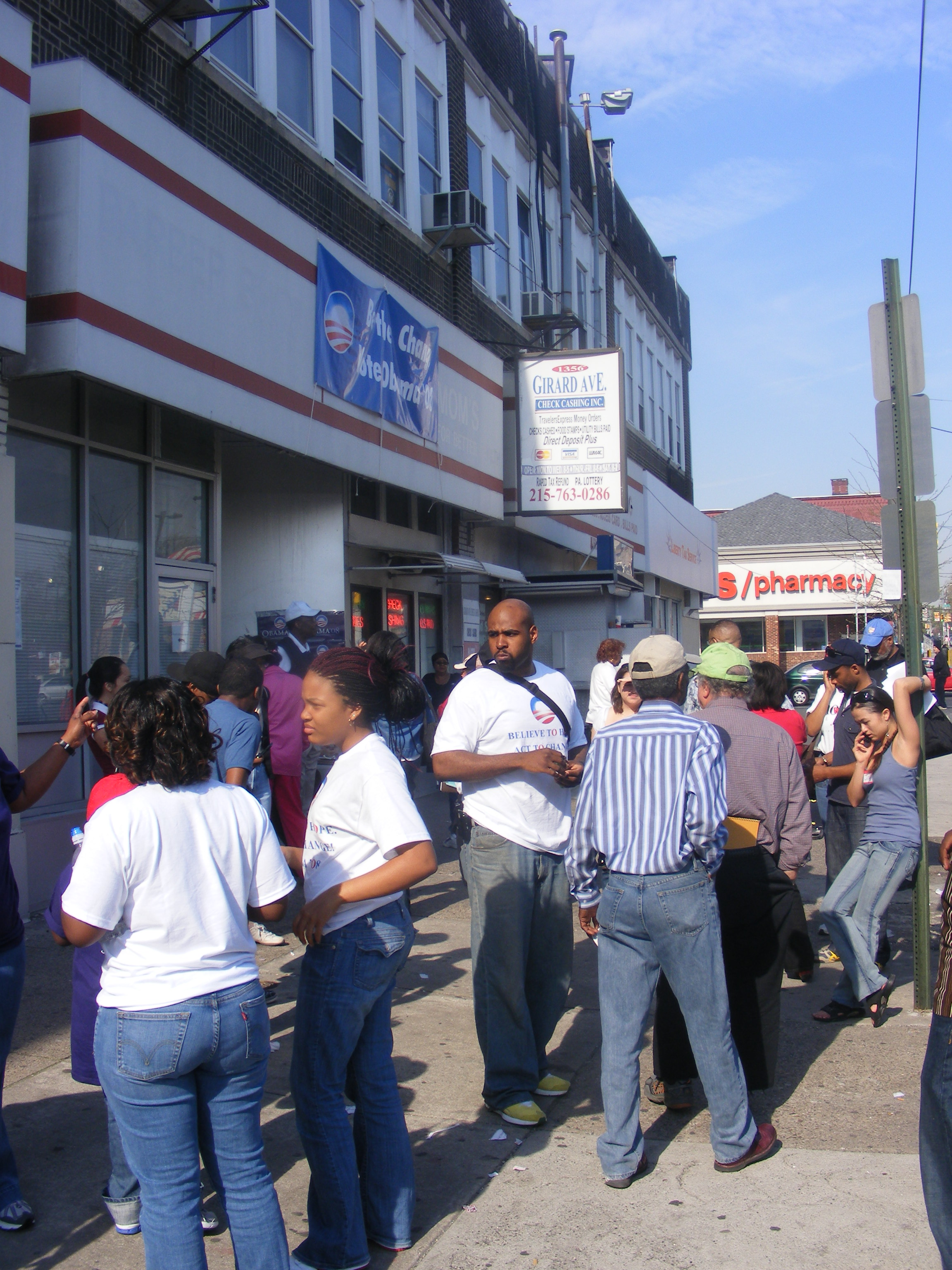 Volunteers outside north philadelphia Obama hqts.